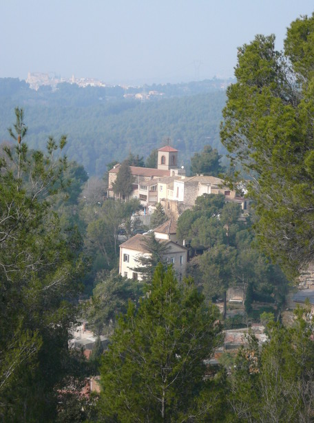 Sant Bartomeu de la Quadra (Molins de Rei), and El Papiol (very far). In Collserola, Catalonia (see Collserola). I made the photograph on february 3rd 2007.